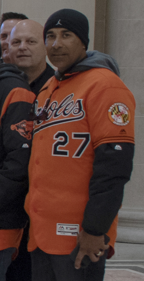 The Baltimore Orioles visit the United States Naval Academy in March 2019